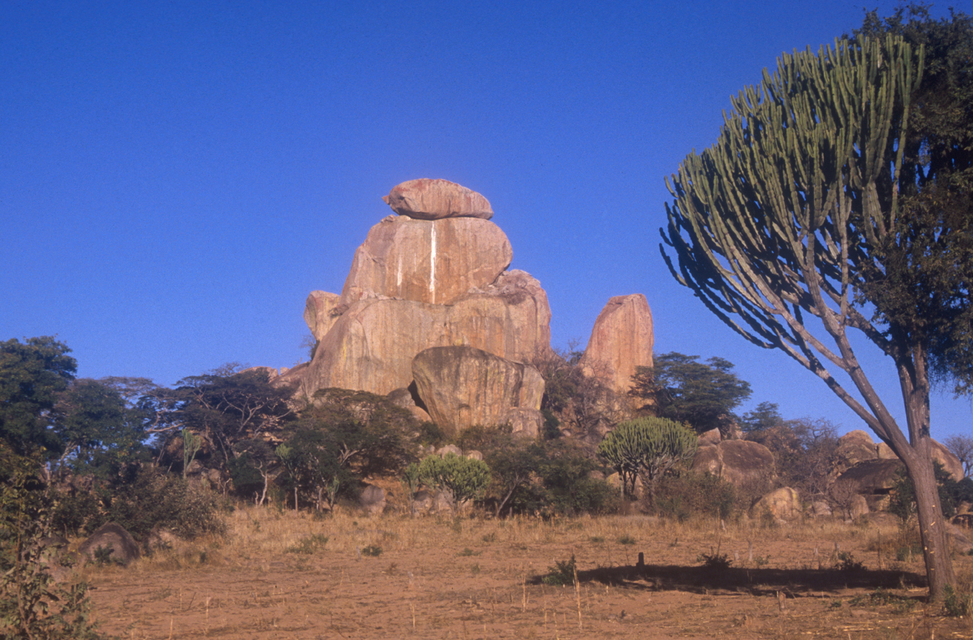 Granite kopje in early evening, Marabada, Zimbabwe geotagged